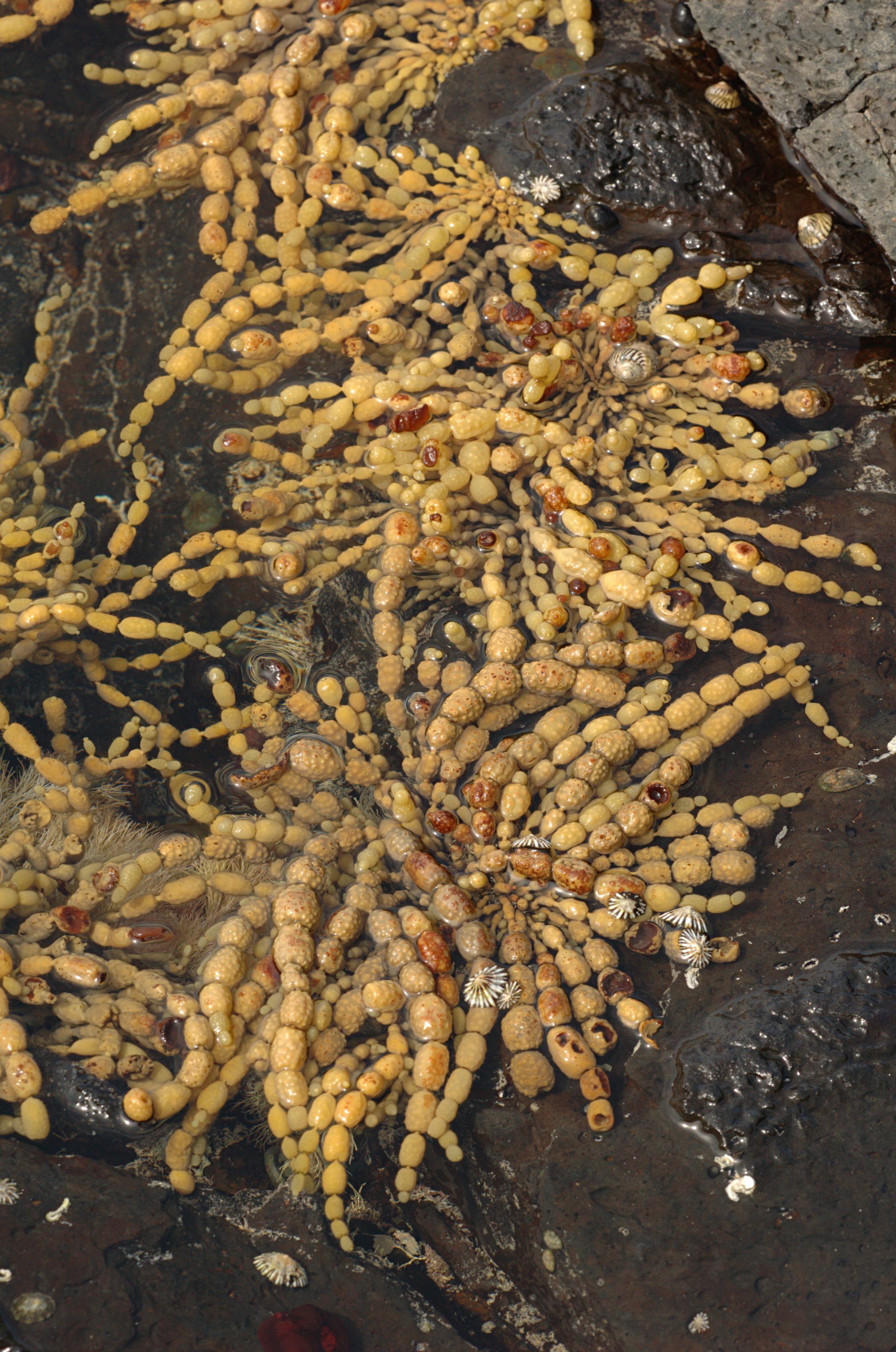 Seaweed, probably Neptune's necklace, Hormosira banksii, in a tidal pool at Flinders Blowhole, Victoria, Australia.